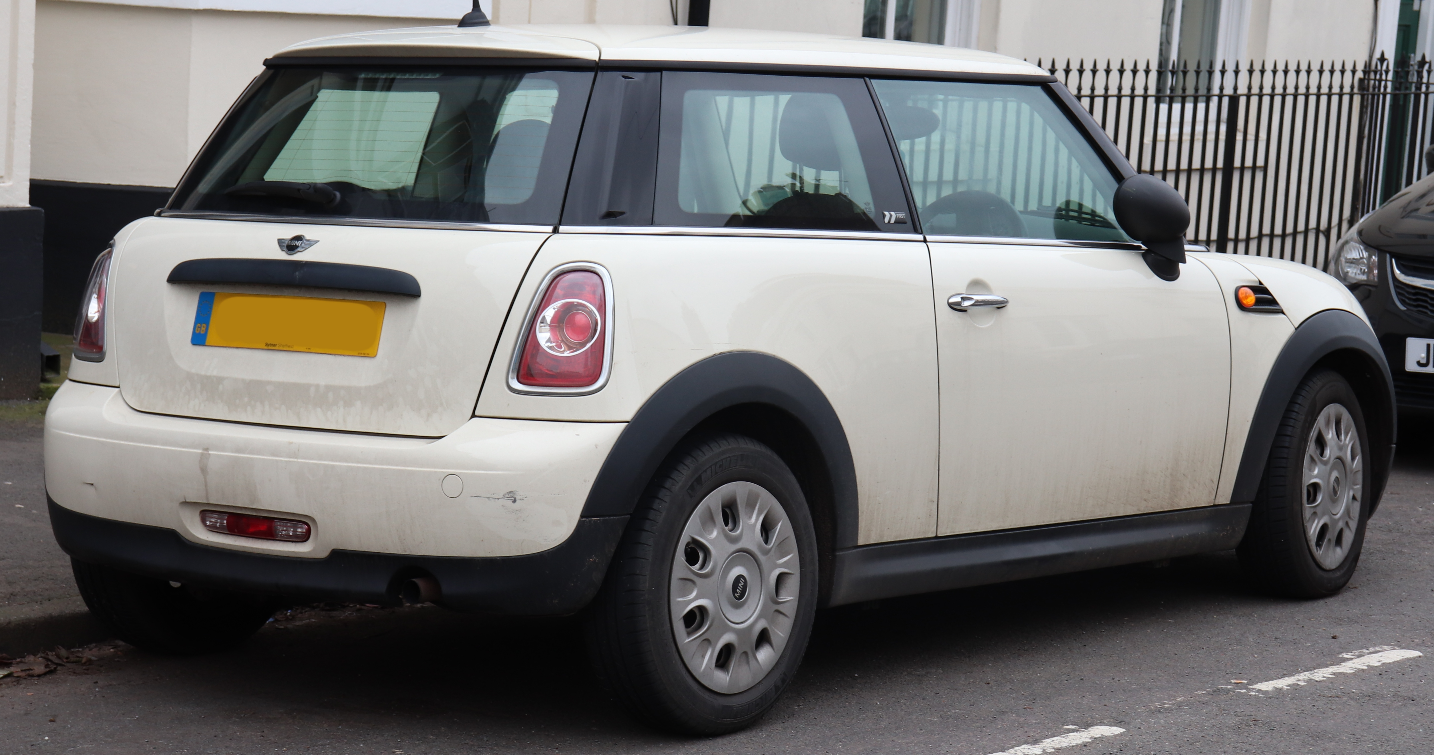 2012 Mini Hatch First 1.6 Rear Taken in Leamington Spa